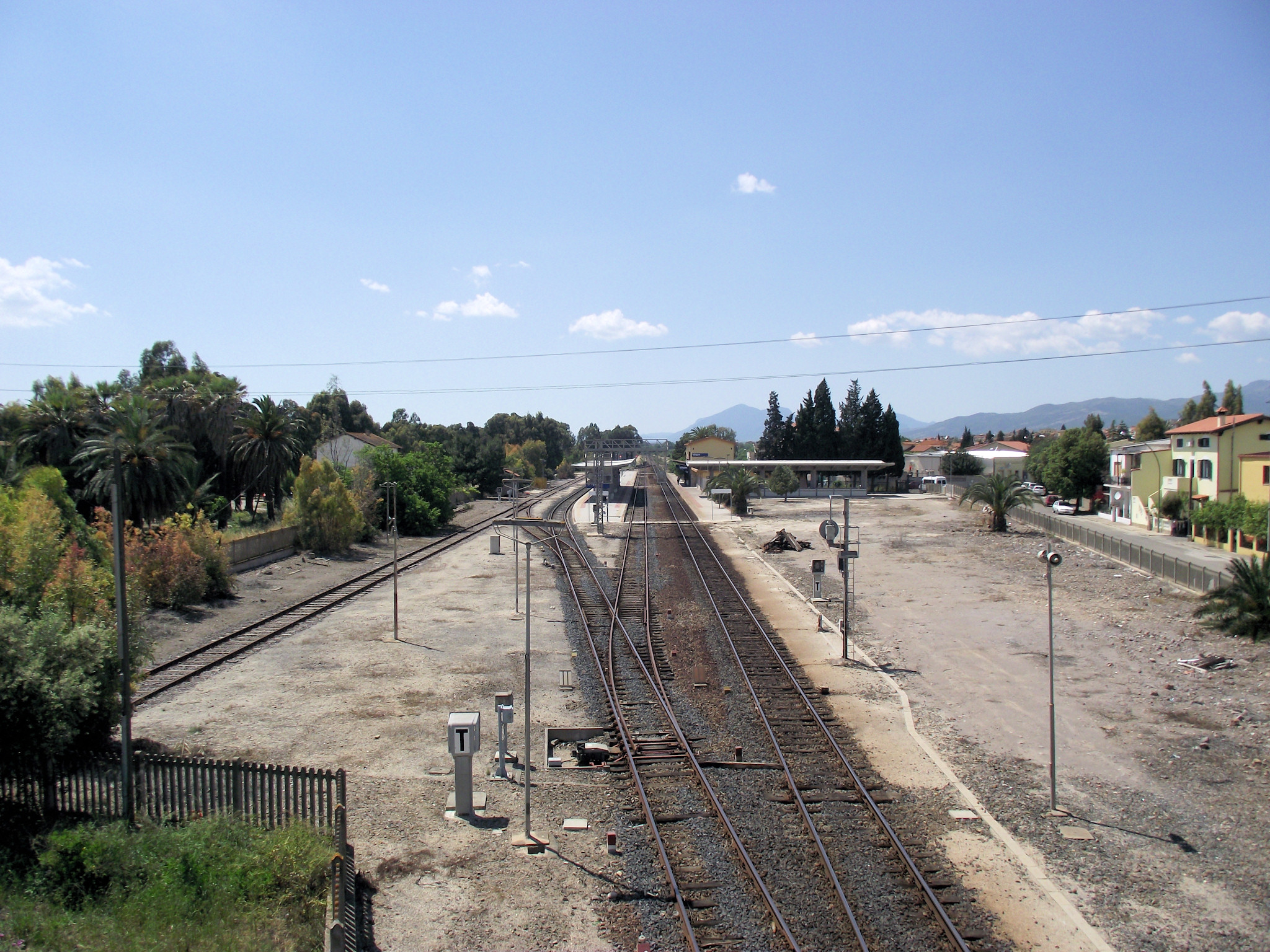 The rail area of Siliqua, in Sardinia, Italy. On the right the FS station with its tracks, on the left the former FMS station, closed in 1968.